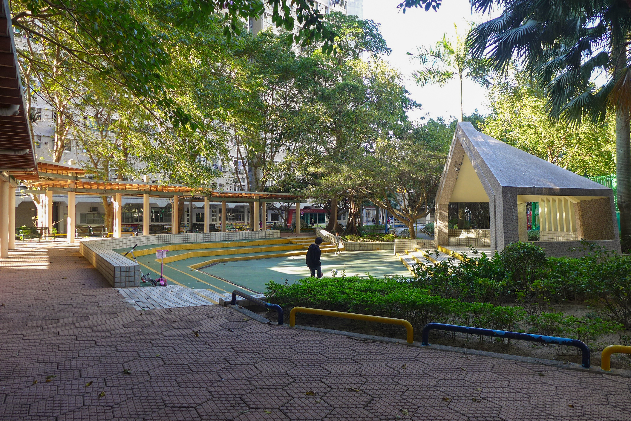 Tin Ping Estate Amphitheatre